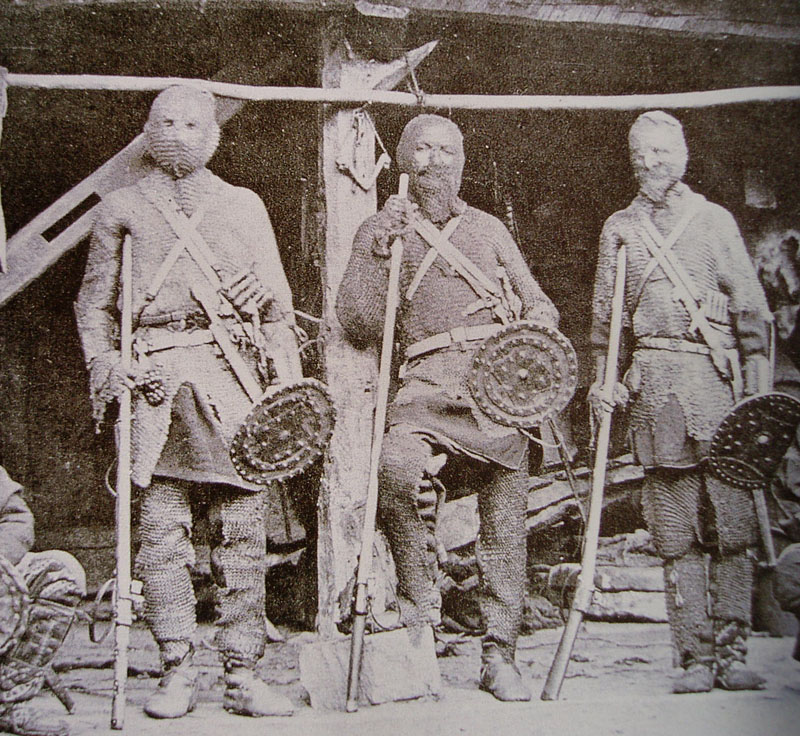 This photo has been misidentified as being Turkmen soldiers, they are actually Khevsur warriors wearing their traditional mail armor and shields, it has been cropped from a larger image. Khevsurians (ხევსურები) are an ethnographical group of Georgians, mainly living in Khevsureti, on both sides of the Caucasus Mountain Chain in the watersheds of the rivers Aragvi and Argun. There are some villages in Khevi, Ertso-Tianeti, Kakheti (Shiraki), Kvemo Kartli (Gardabani) also where Khevsurians reside. Khevsurians speak the Georgian language in Khevsurian dialect. For a long time Khevsurians have been keeping traditional culture: wearing, weapons, livings and canons.